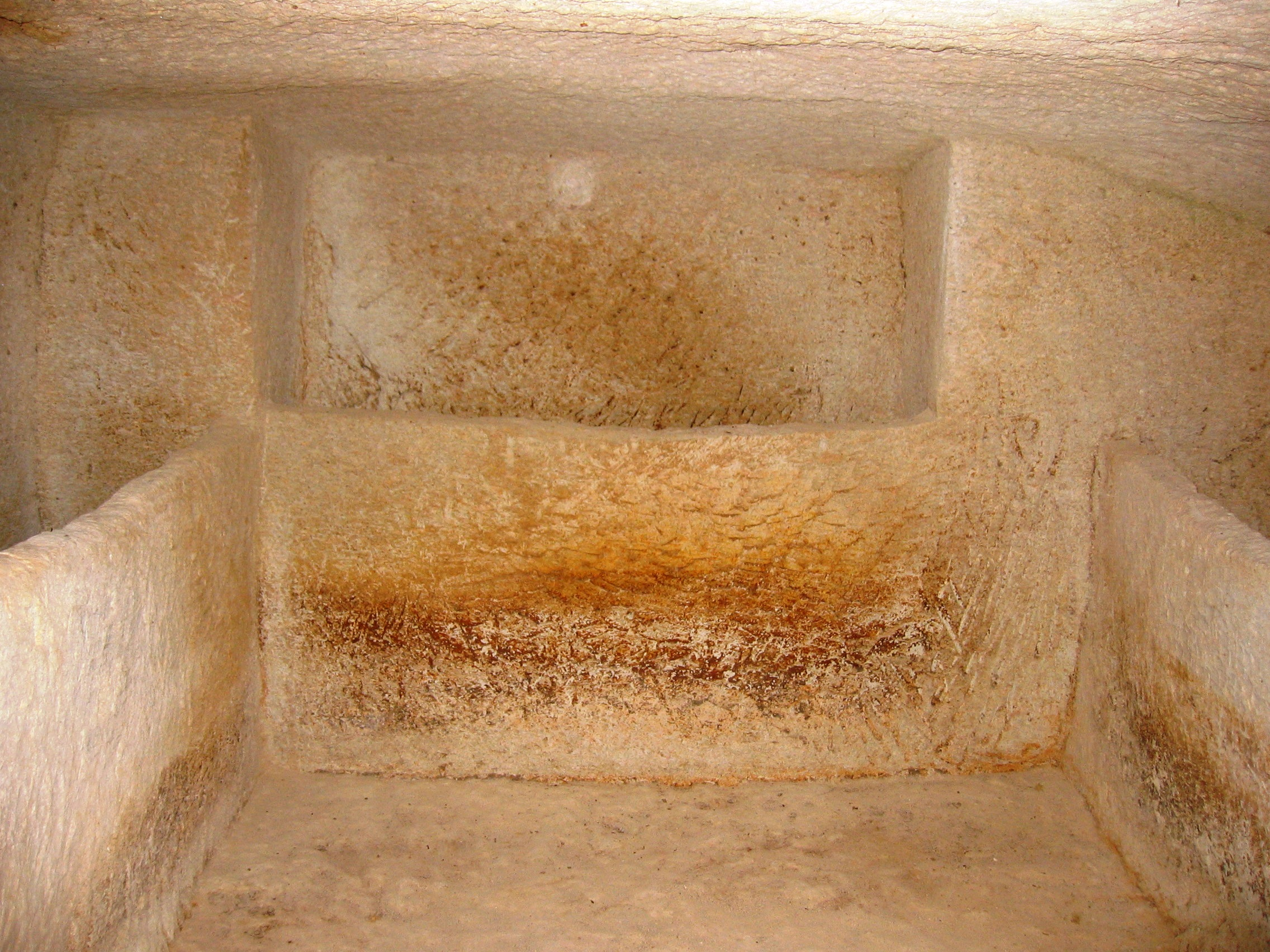 Monte Sirai, Sardinia (Italy)